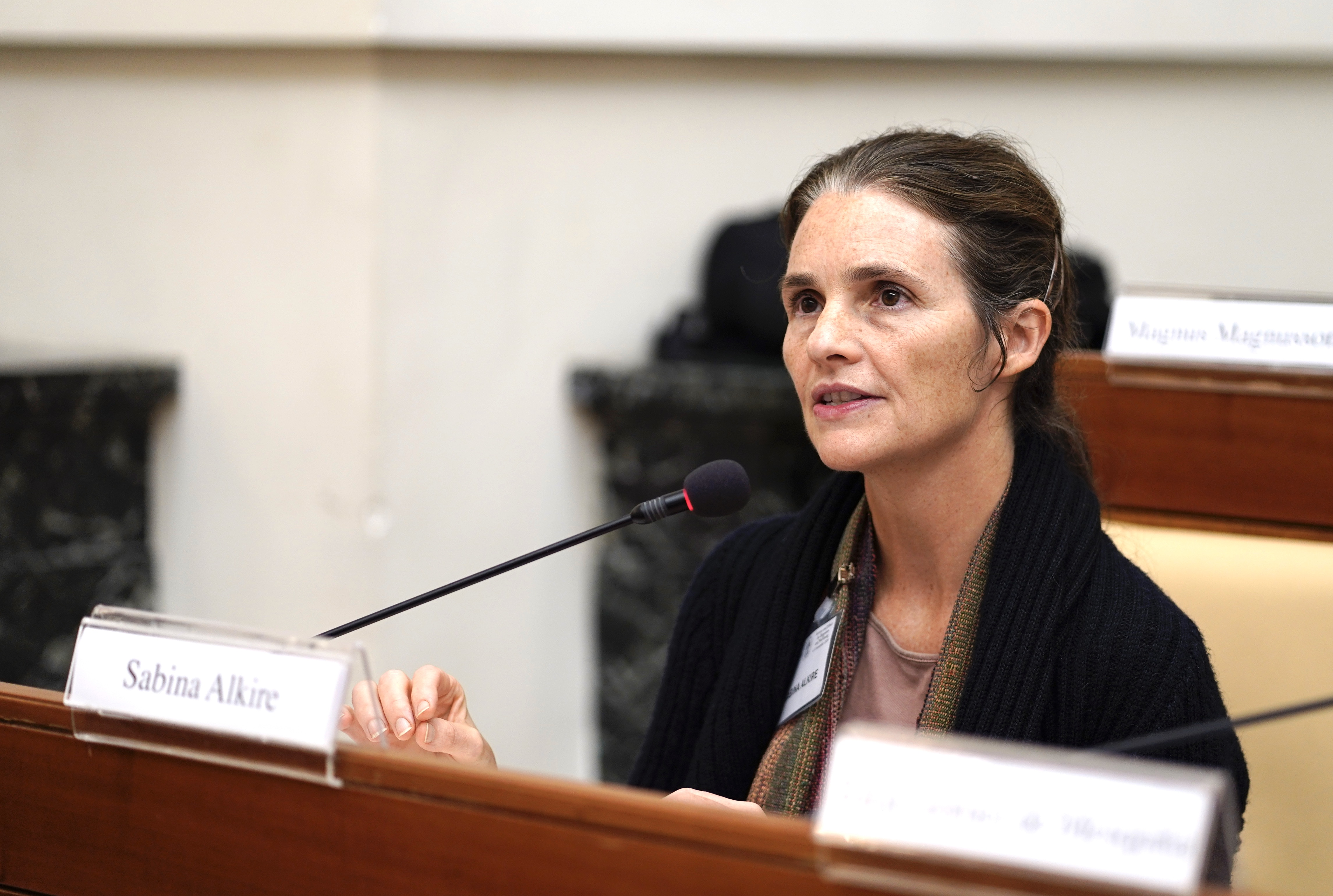 A portrait of Professor Sabina Alkire at the Pontifical Academy of Sciences, 4 November 2019